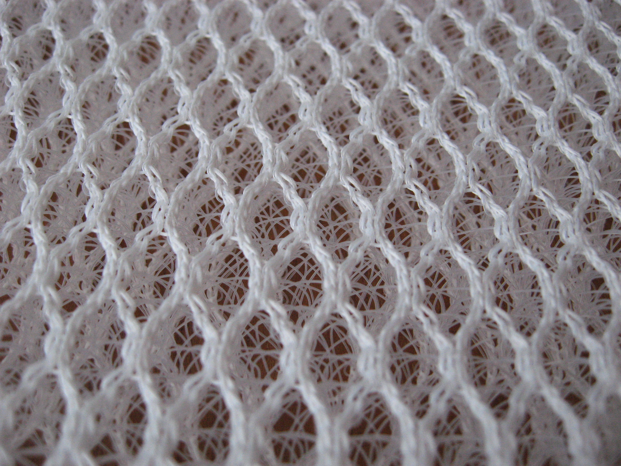 Spacer fabric made on Raschel machine